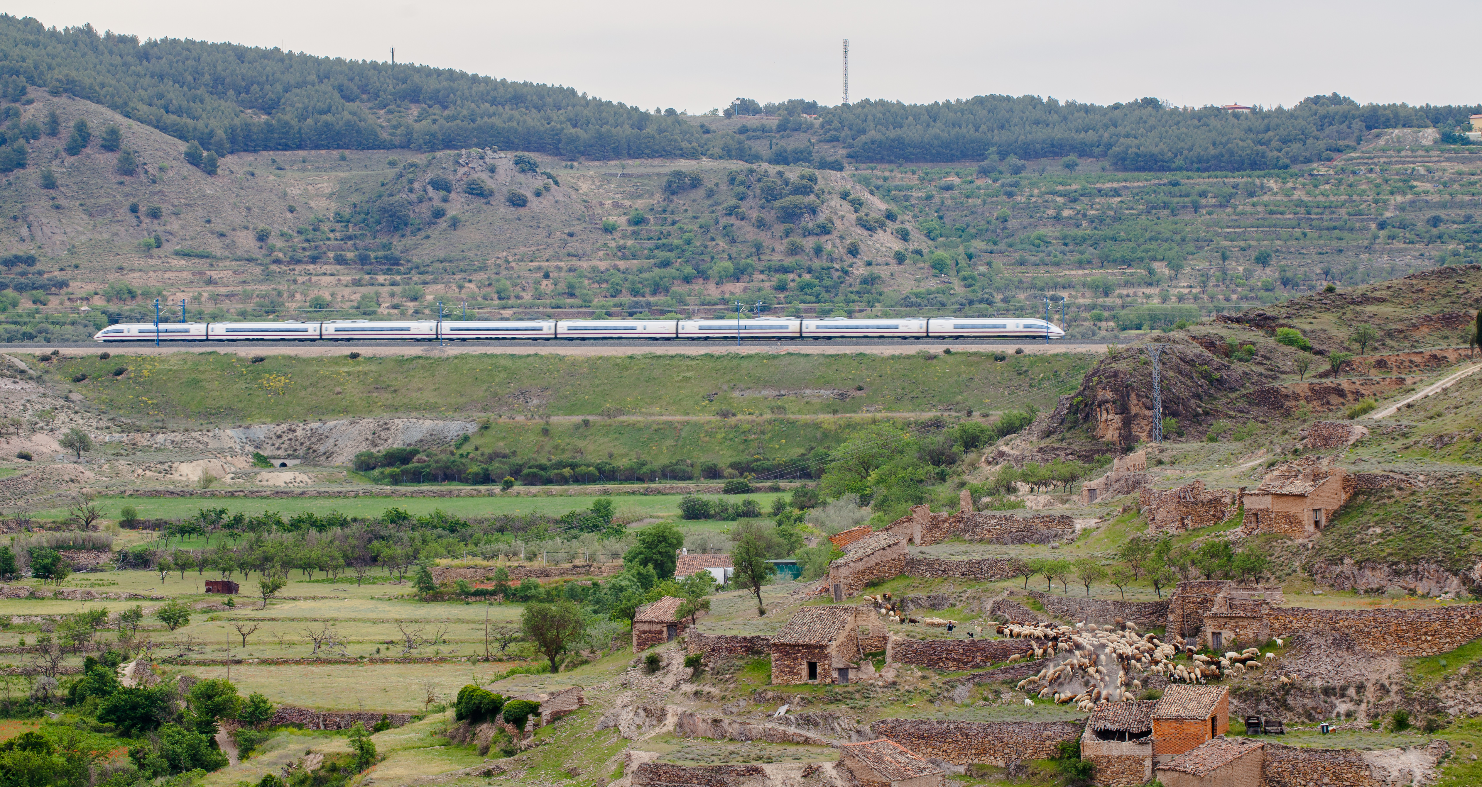 AVE train through Huermeda, Spain